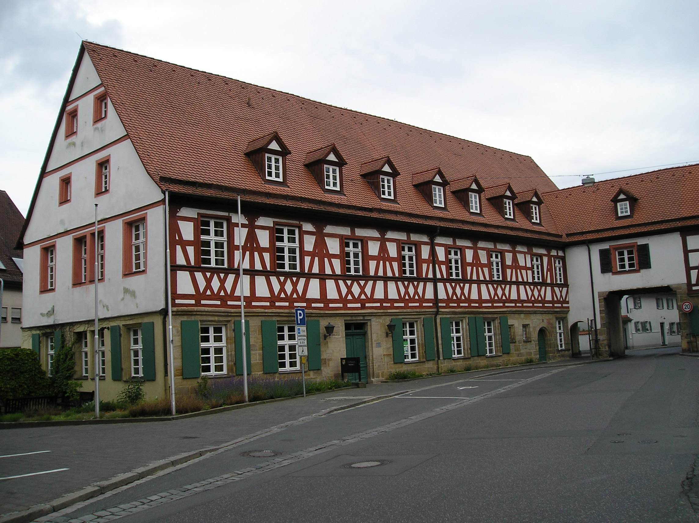 New town hall of Neunkirchen am Brand (Bavaria, Germany) located at the old convent school.